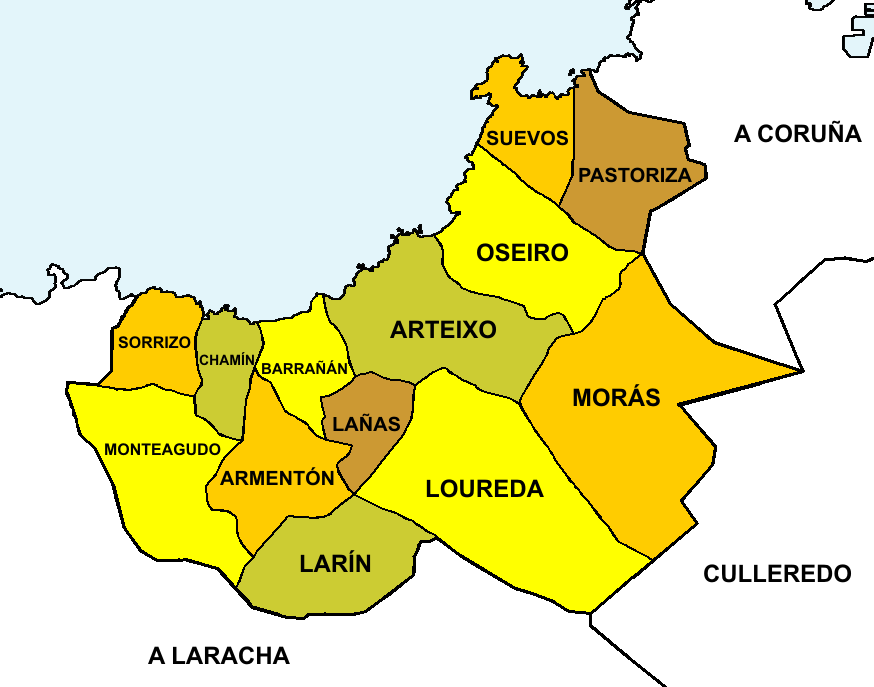 Map of parishes of the municipality of Arteixo (Galicia, Spain)